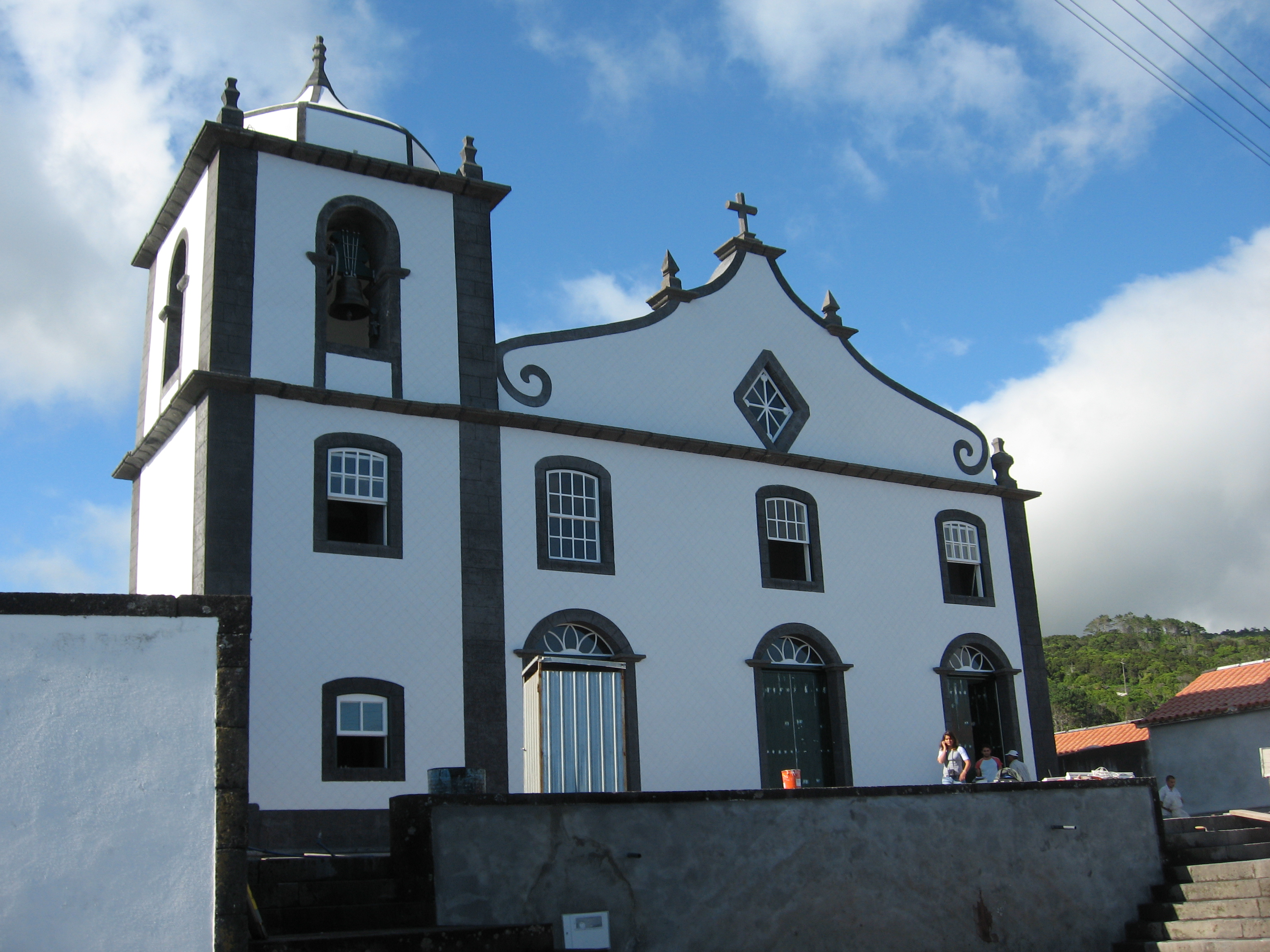 Remodeled Church of São João Baptista, São João, Lajes, Pico (Azores), Portugal